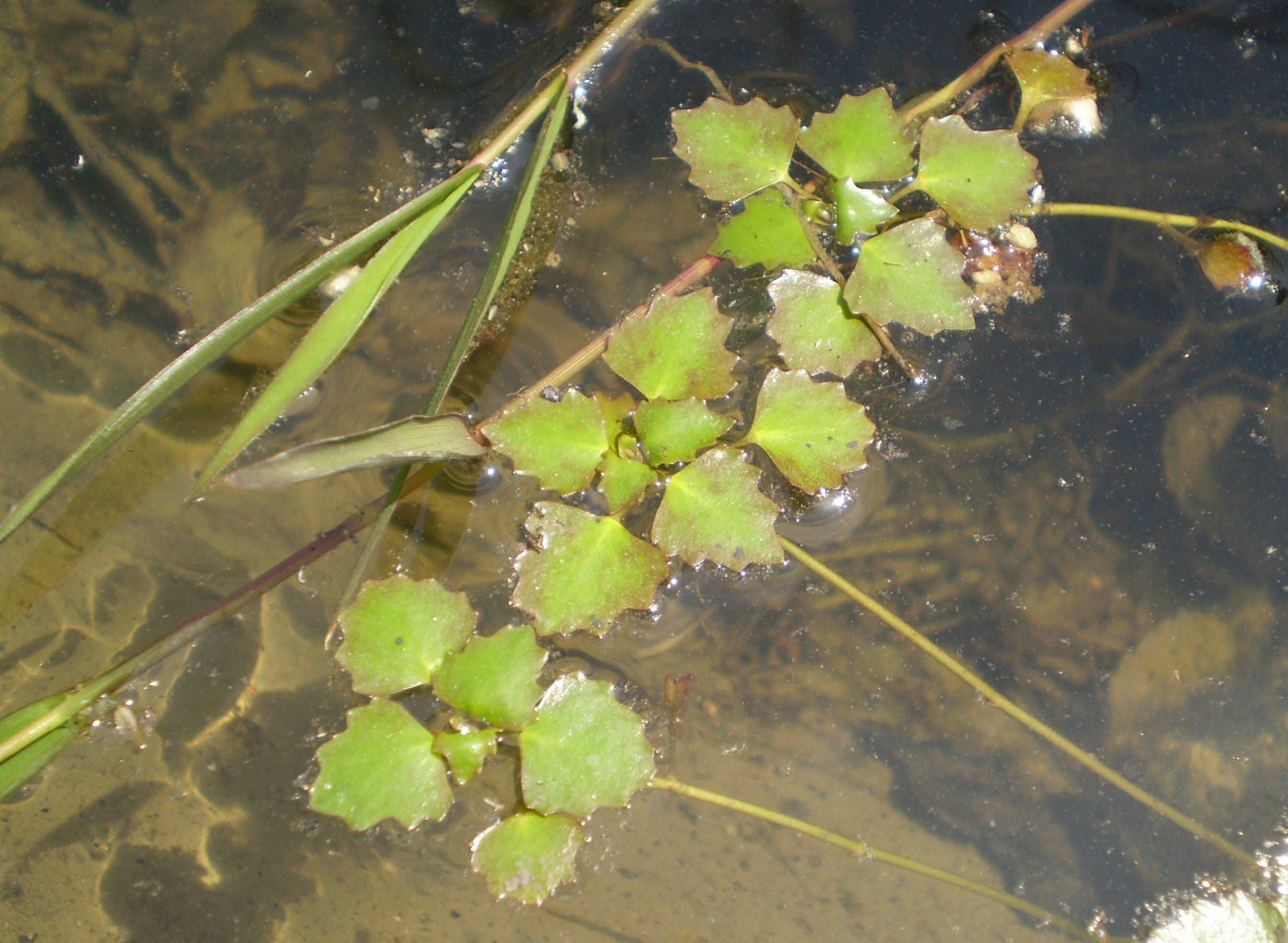 Trapa incisa(Himebishi)